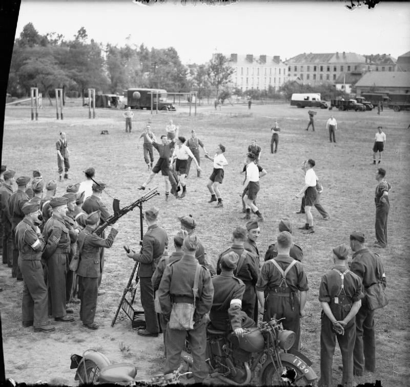 The British Expeditionary Force (bef) in France 1939-1940 A game of football at Chanzy barracks, Le Mans. Ordnance sergeants in trousers against men in shorts on the BEF assembly ground. (Note the gun mounted on a tripod as a precaution against air attack).